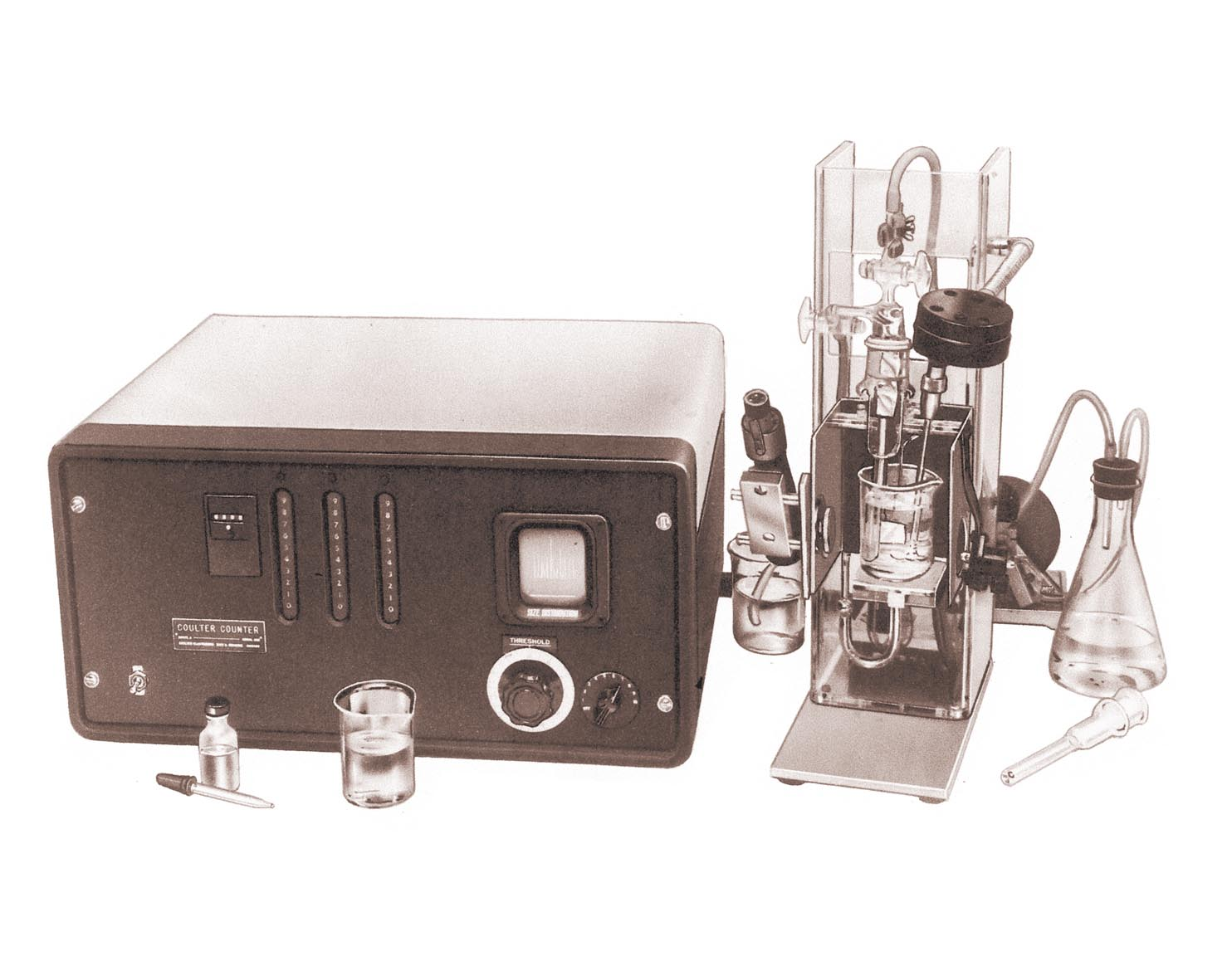 Image from old advertisements for COULTER COUNTER Model A.